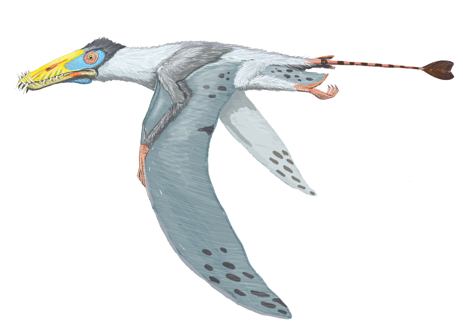 Dorygnathus bathensis